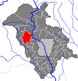 This map shows the area of the Gemeinde (municipality) Eisbach in the Bezirk (district) Graz-Umgebung, Styria, Austria.